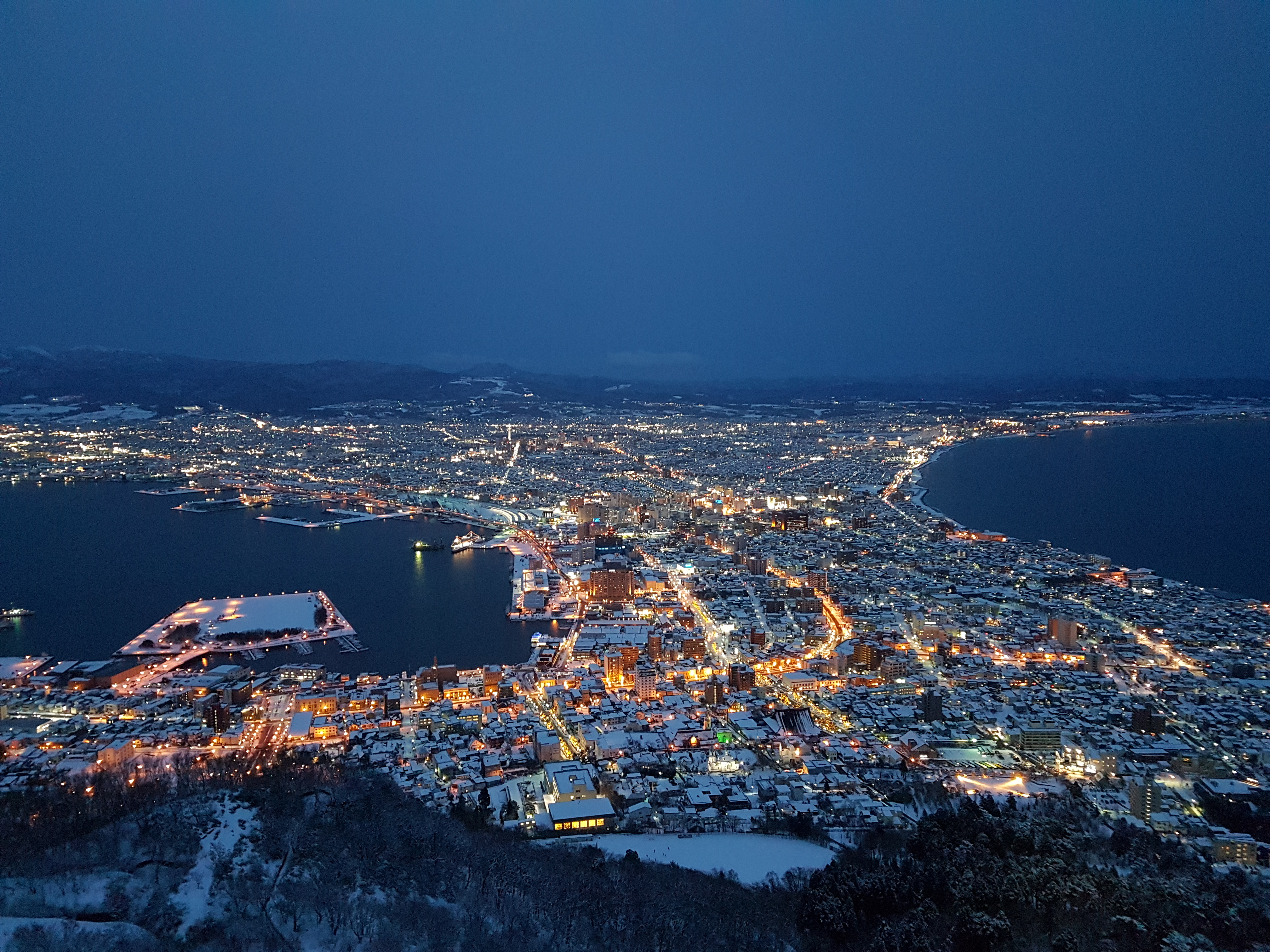 View of Hakodate, Hokkaido from Mount Hakodate during a January 2018 evening